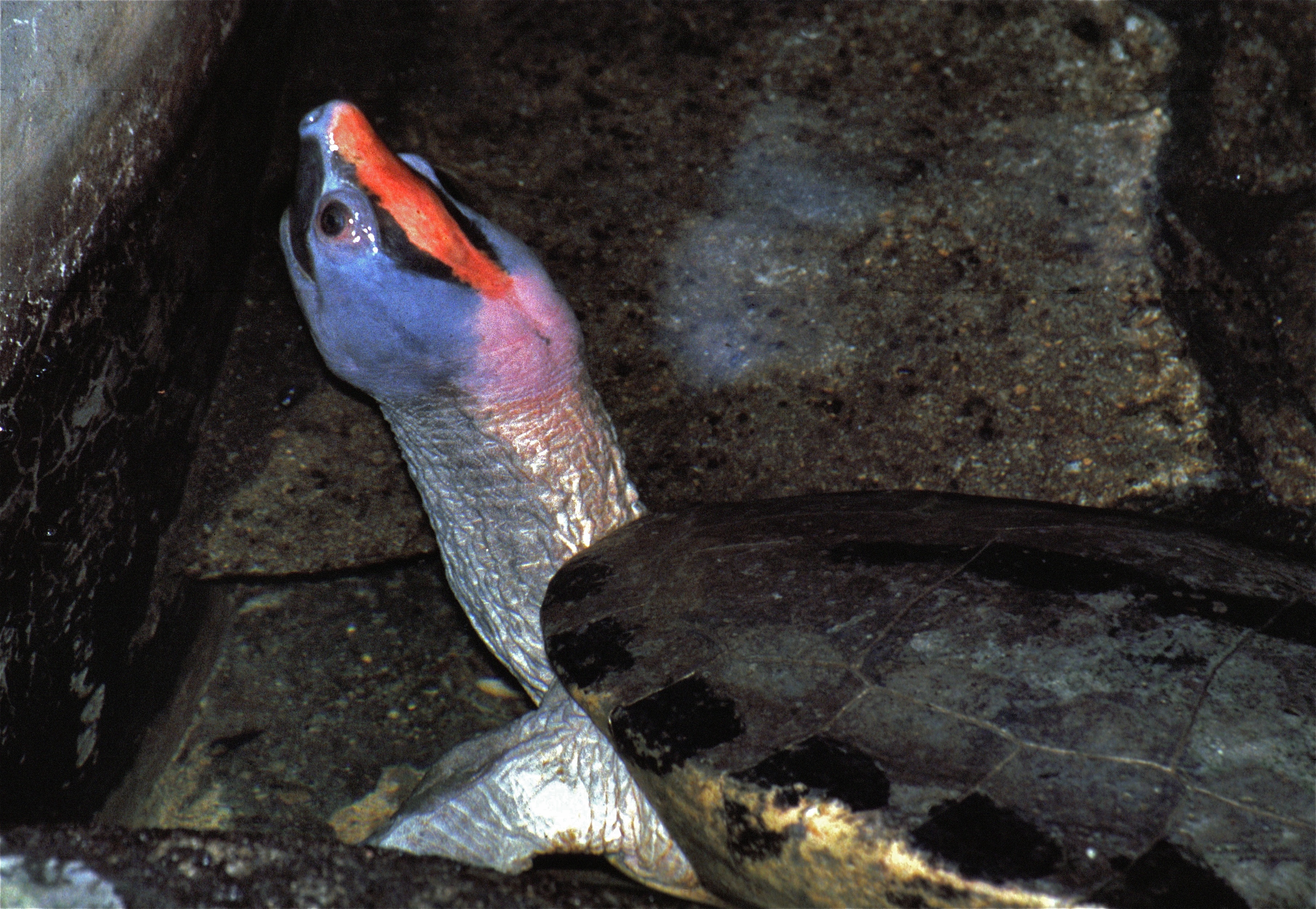 Zoo, Bangkok, THAILAND Scanned Slide from 2003